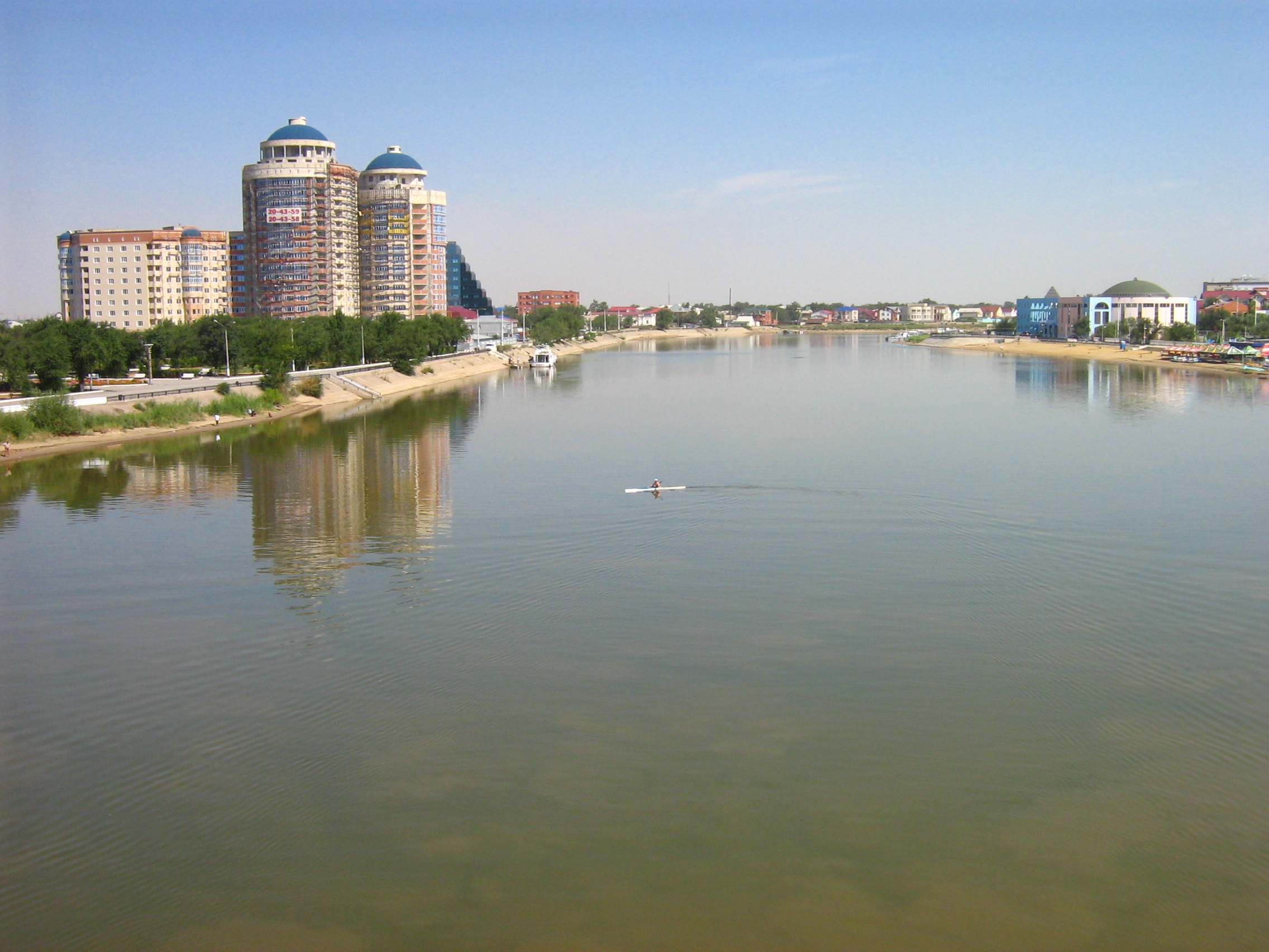 Ural river in the Atyrau city (Kazakhstan)